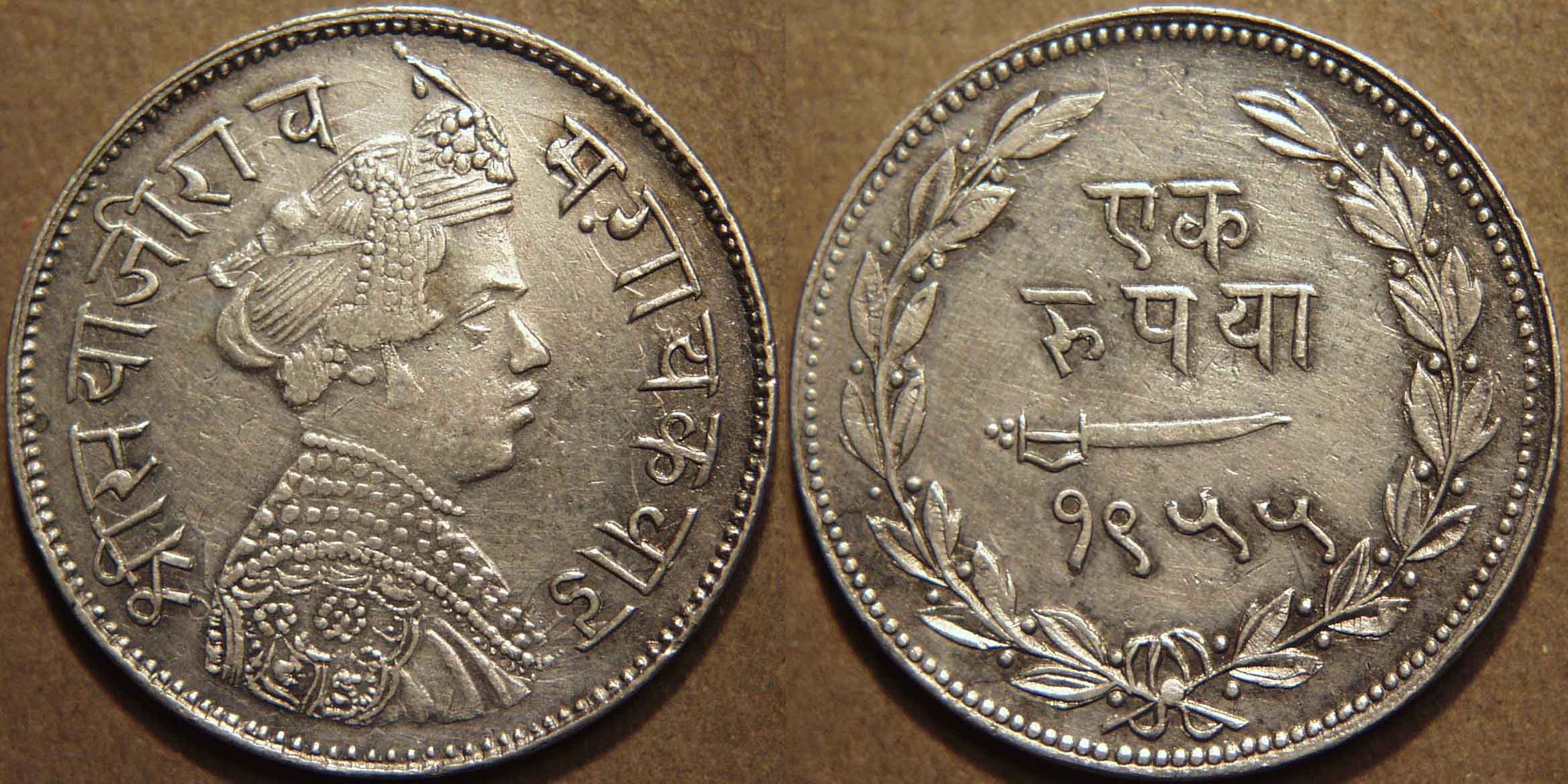 Silver rupee of Sayaji Rao III of Baroda (ruled 1875-1939), dated 1955 of the Vikram era (= 1898/1899 CE)